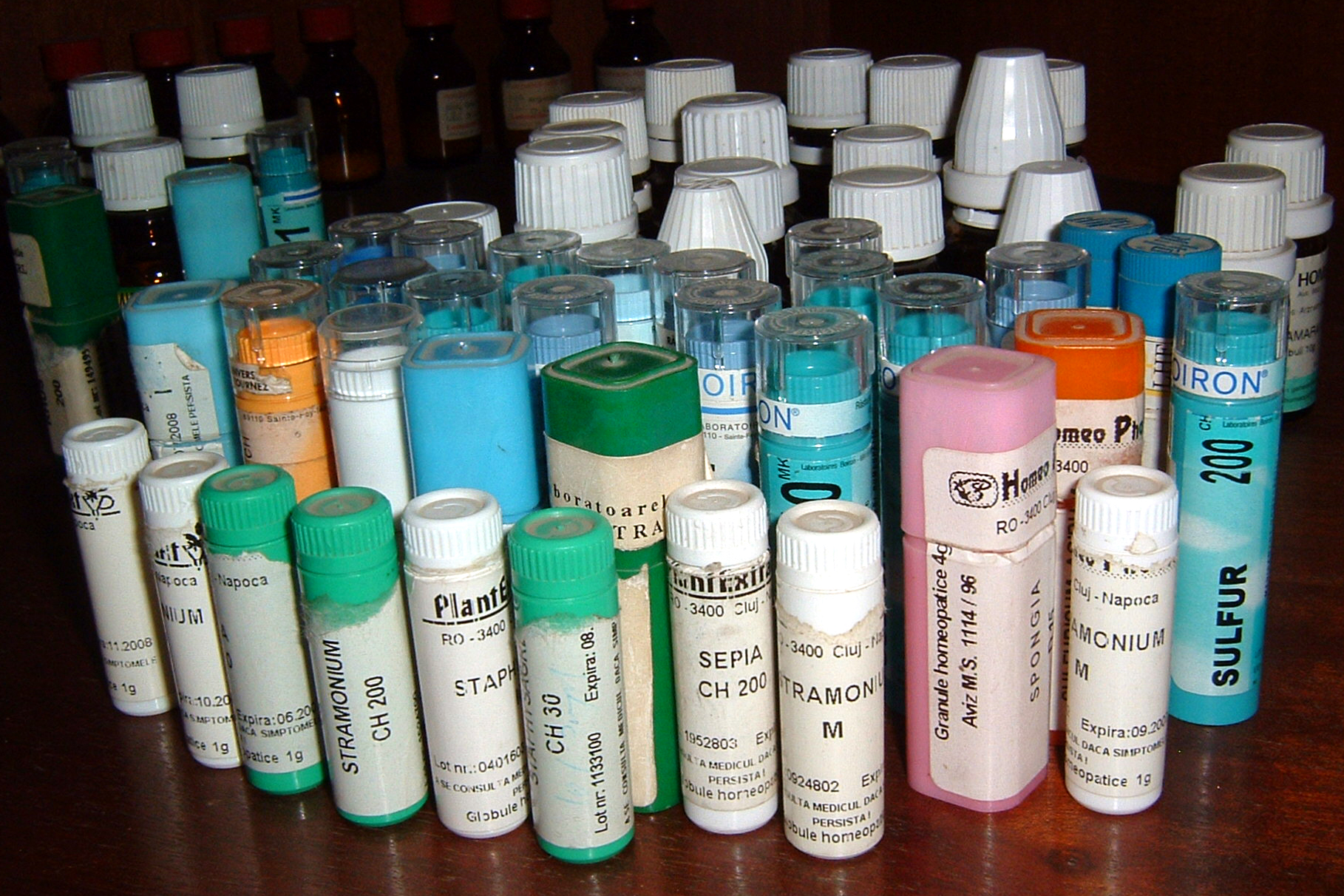 Various homeopathic remedies